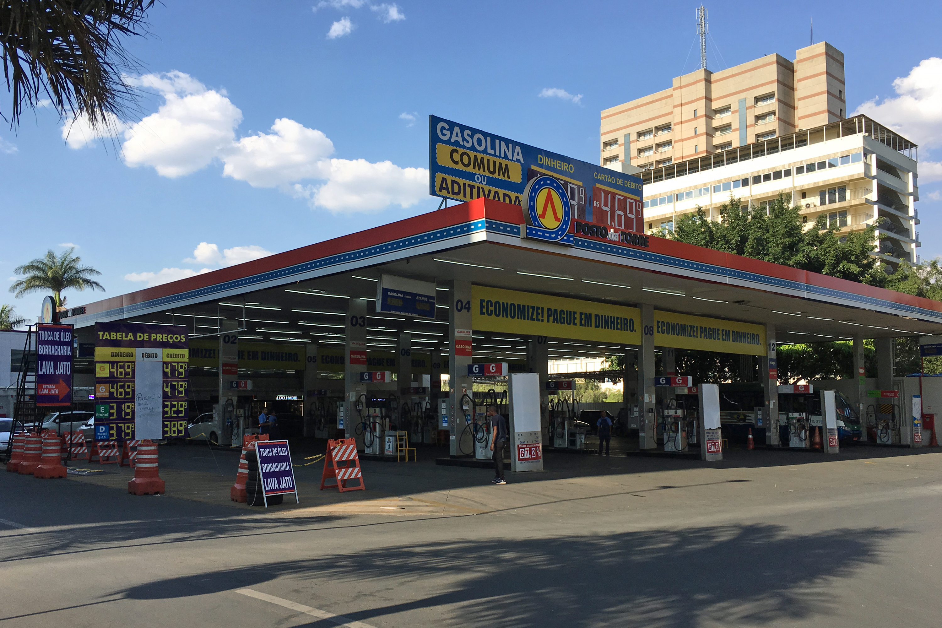 This is the Brazilian car wash and gas station where Operation Car Wash (Portuguese: Operação Lava Jato) criminal (corruption) investigation began, Brasilia, Distrito Federal.